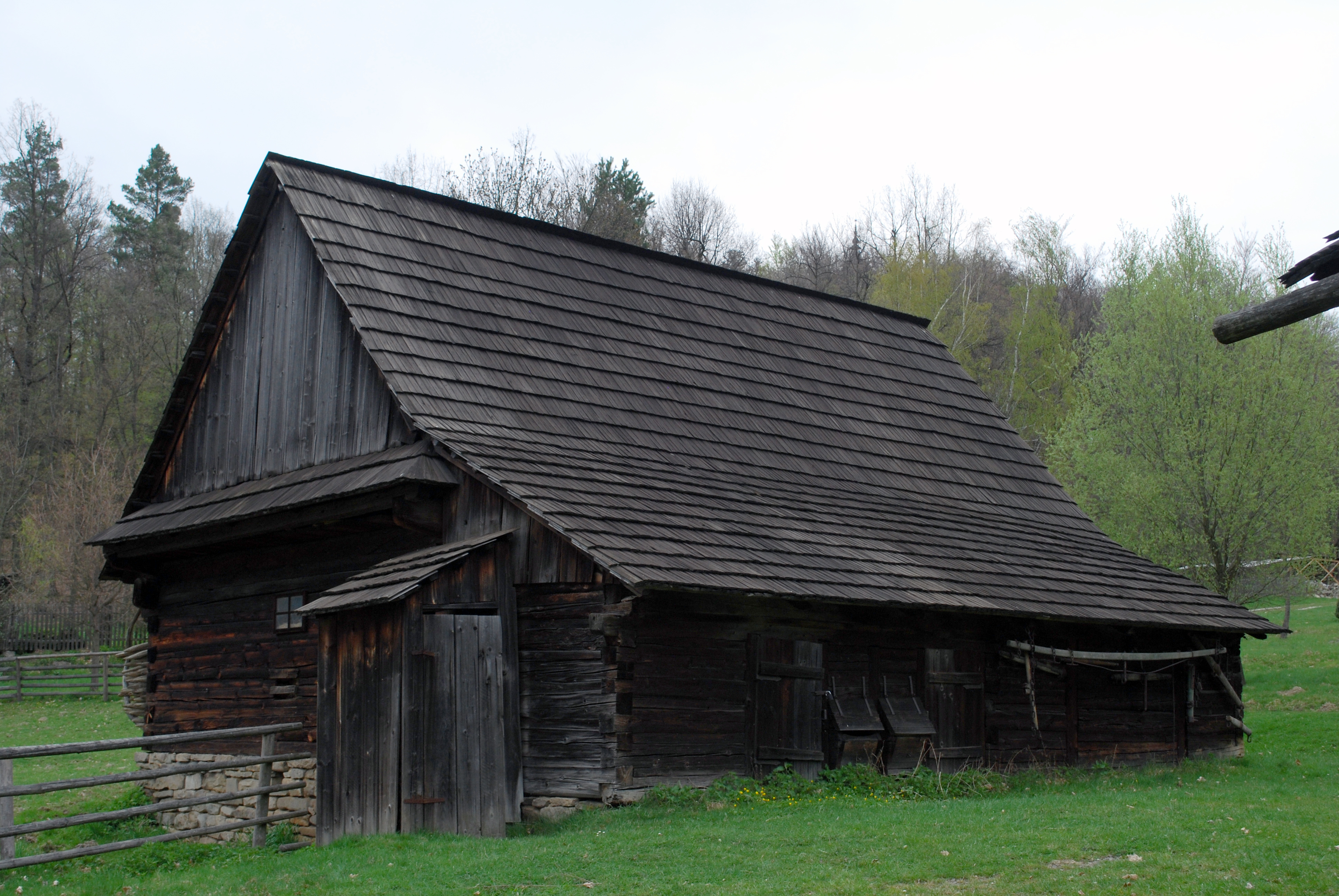 Peasant farmstand from Velke Karlovice from 1926